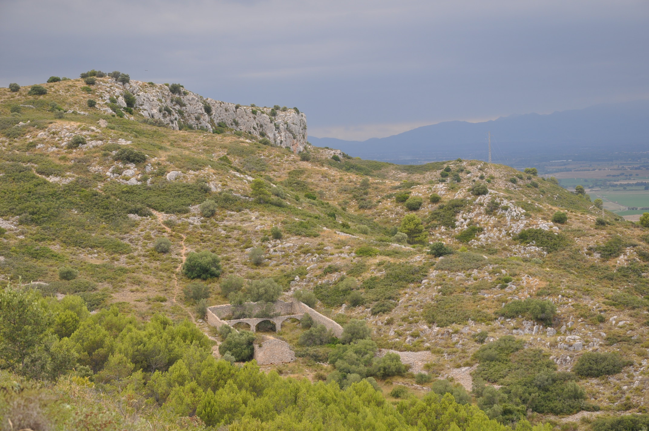 Mas Reguinell is a ruined farm in the Montgrí Massif in Catalonia, Spain. The row of green trees marks a small stream, the "Còrrec del Mas Reguinell". Direction of view is toward the NNW.